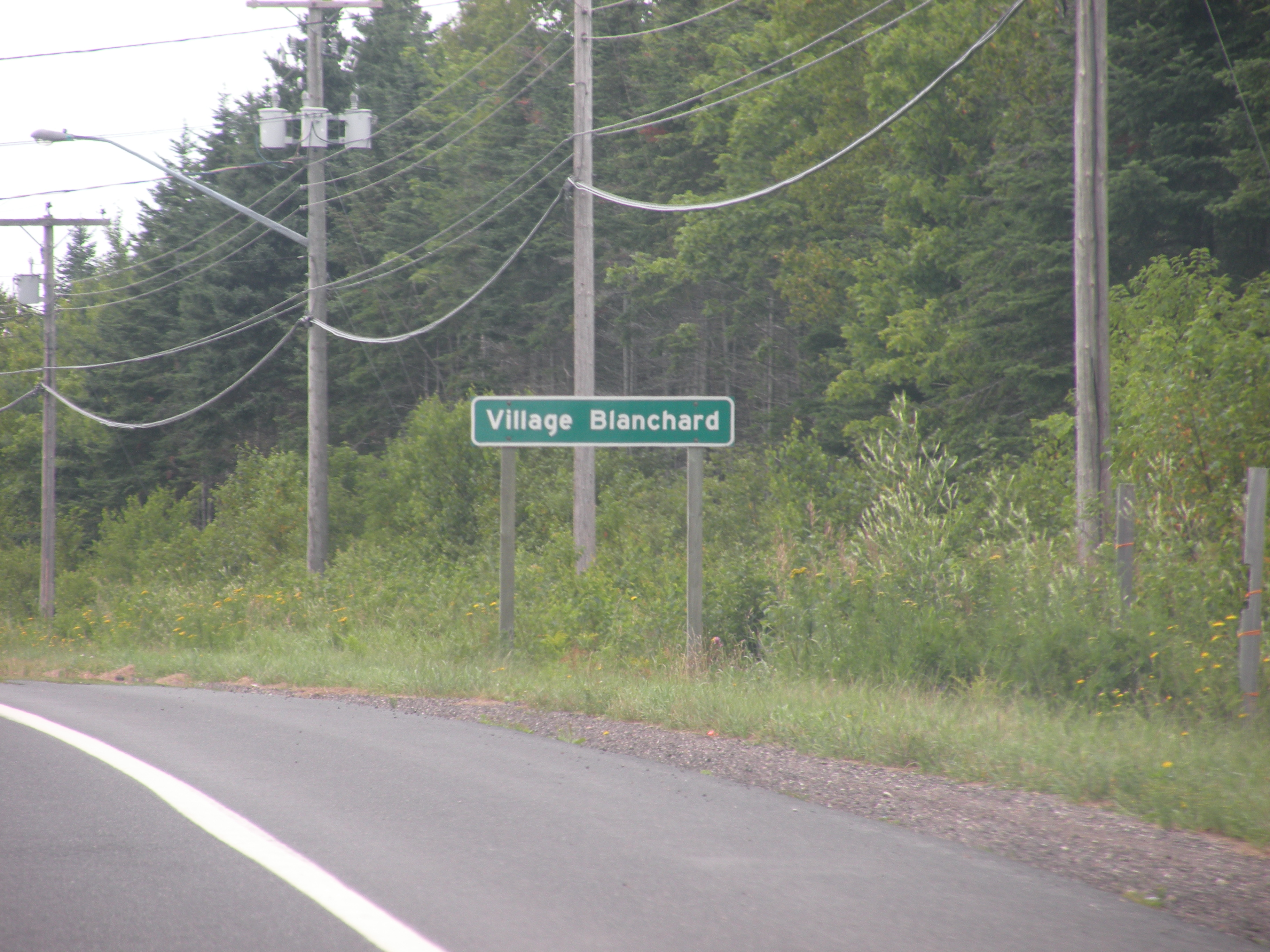 Road sign of Village-Blanchard, New Brunswick, Canada.